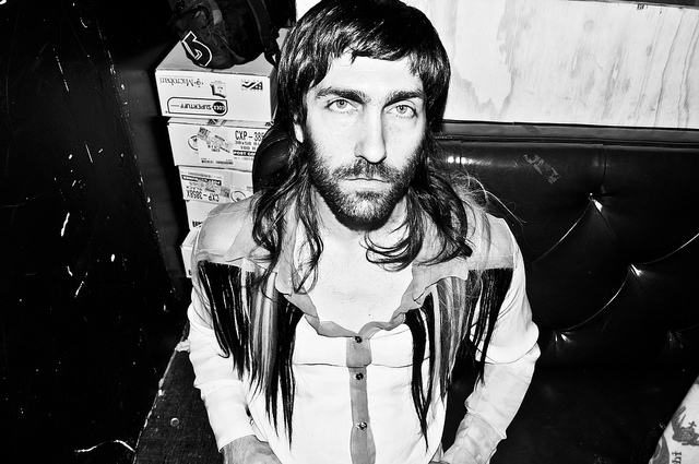 Photo of Matt Katz-Bohen by Ky DiGregorio.